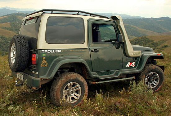 Picture of a Troller car in Campos do Jordão, a mountain city in the state of São Paulo, Brasil. author Felipe Vicentini